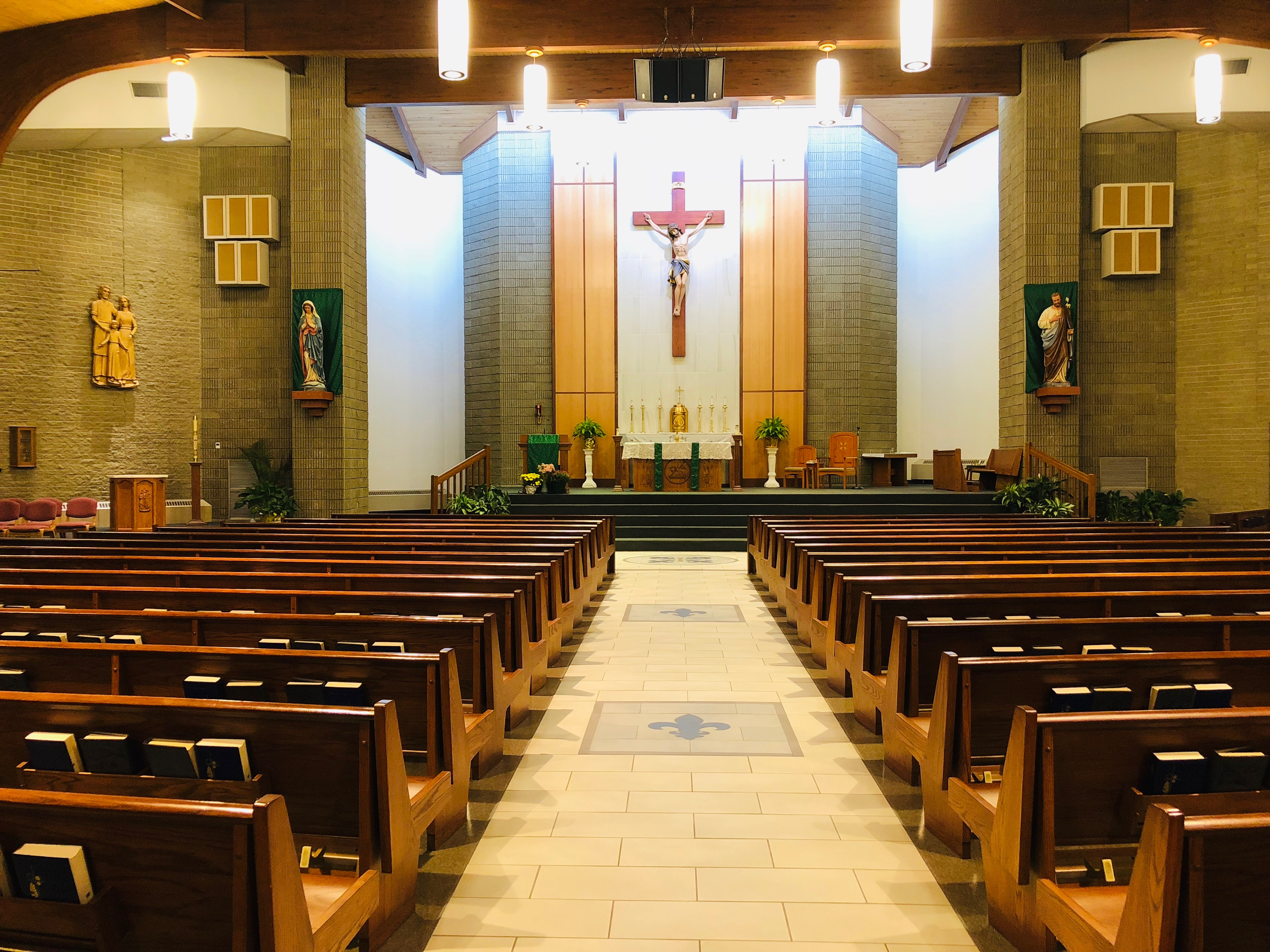 Inside of Our Lady of Victory